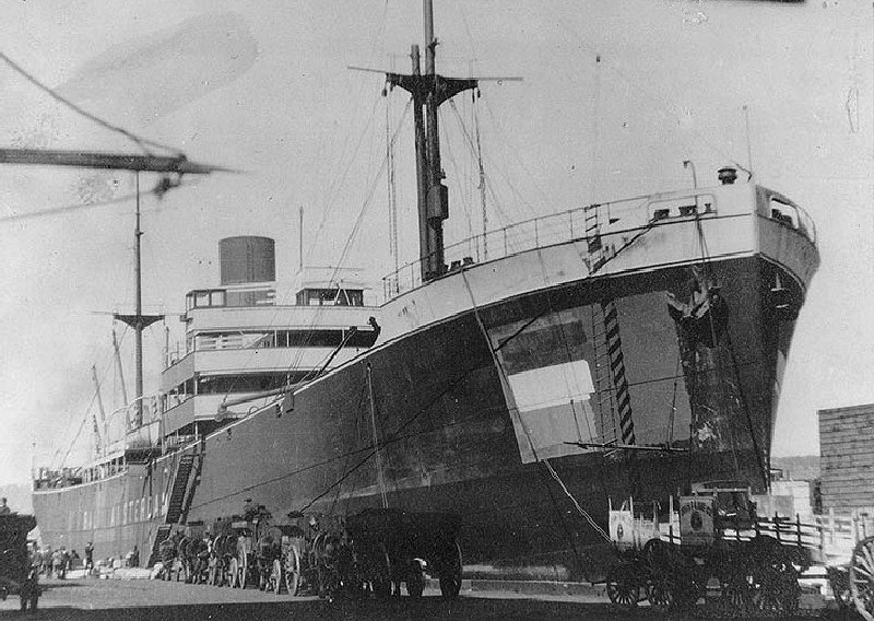 Bali (Dutch Freighter, 1917) Dutch neutrality markings on her bow. Launched in 1917 by Rotterdam Droogd. Maat. at Rotterdam, this ship was acquired for the Navy on 21 March 1918 and placed in commission as USS Bali (ID-2483) on 27 March 1918. She was decommissioned on 30 May 1919 and returned to her owner.